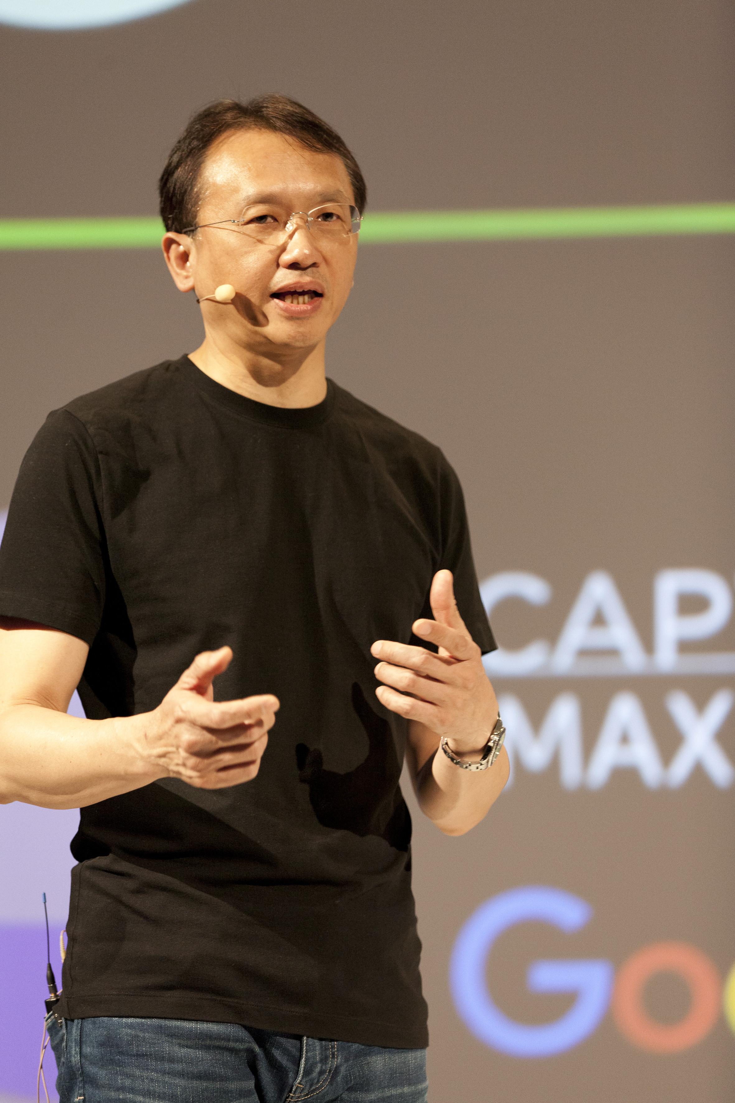 Acer CEO Jason Chen during a press conference in 2016.